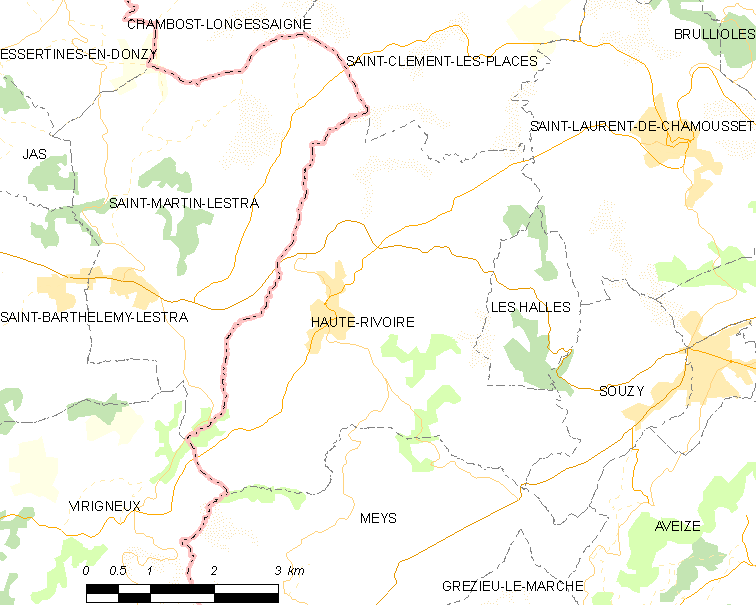 Map of French municipality